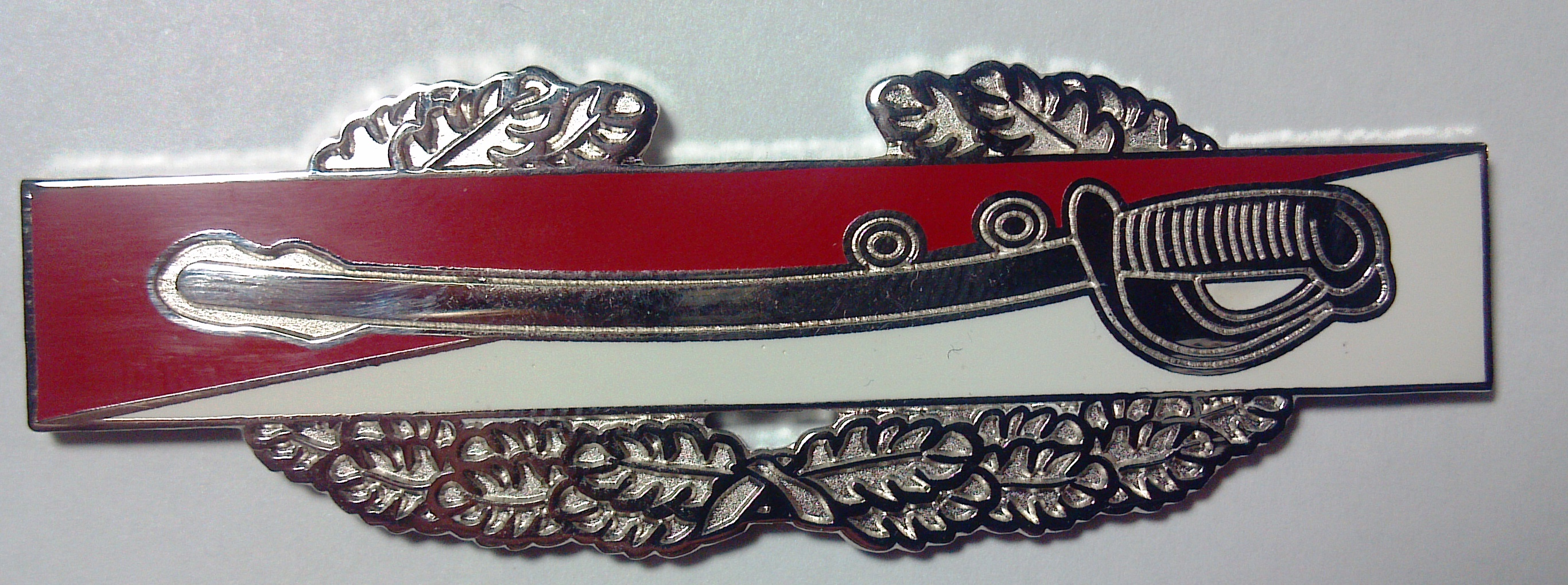 Combat Cavalry Badge concept submitted to Department of the Army, Military Awards Branch, on Nov 17, 2009.